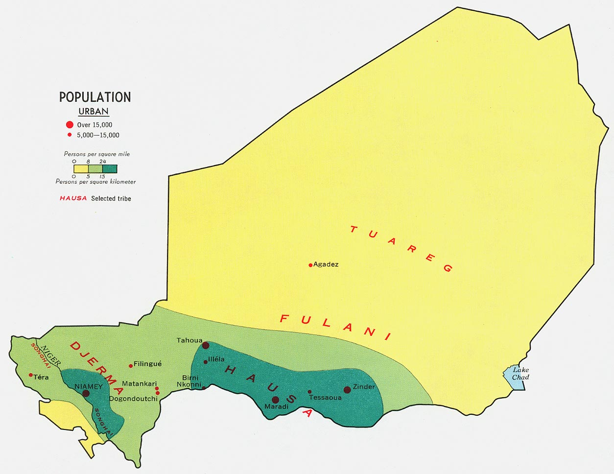 Population density map of Niger (1969)